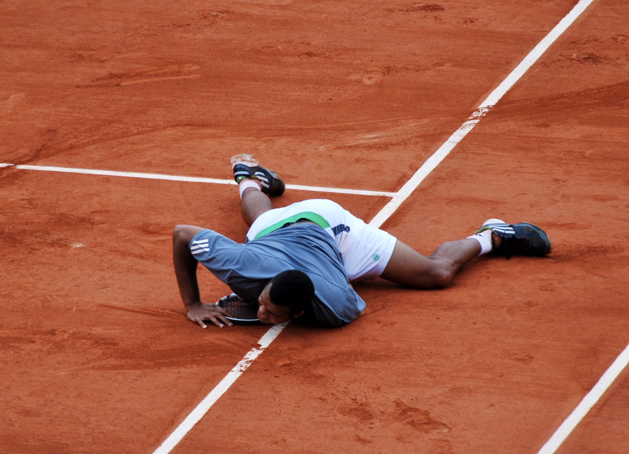 Jo-Wilfried Tsonga during his 3rd round match with Stanislas Wawrinka at Roland Garros 2011. Wawrinka won 4-6, 6-7, 7-6, 6-2, 6-3.